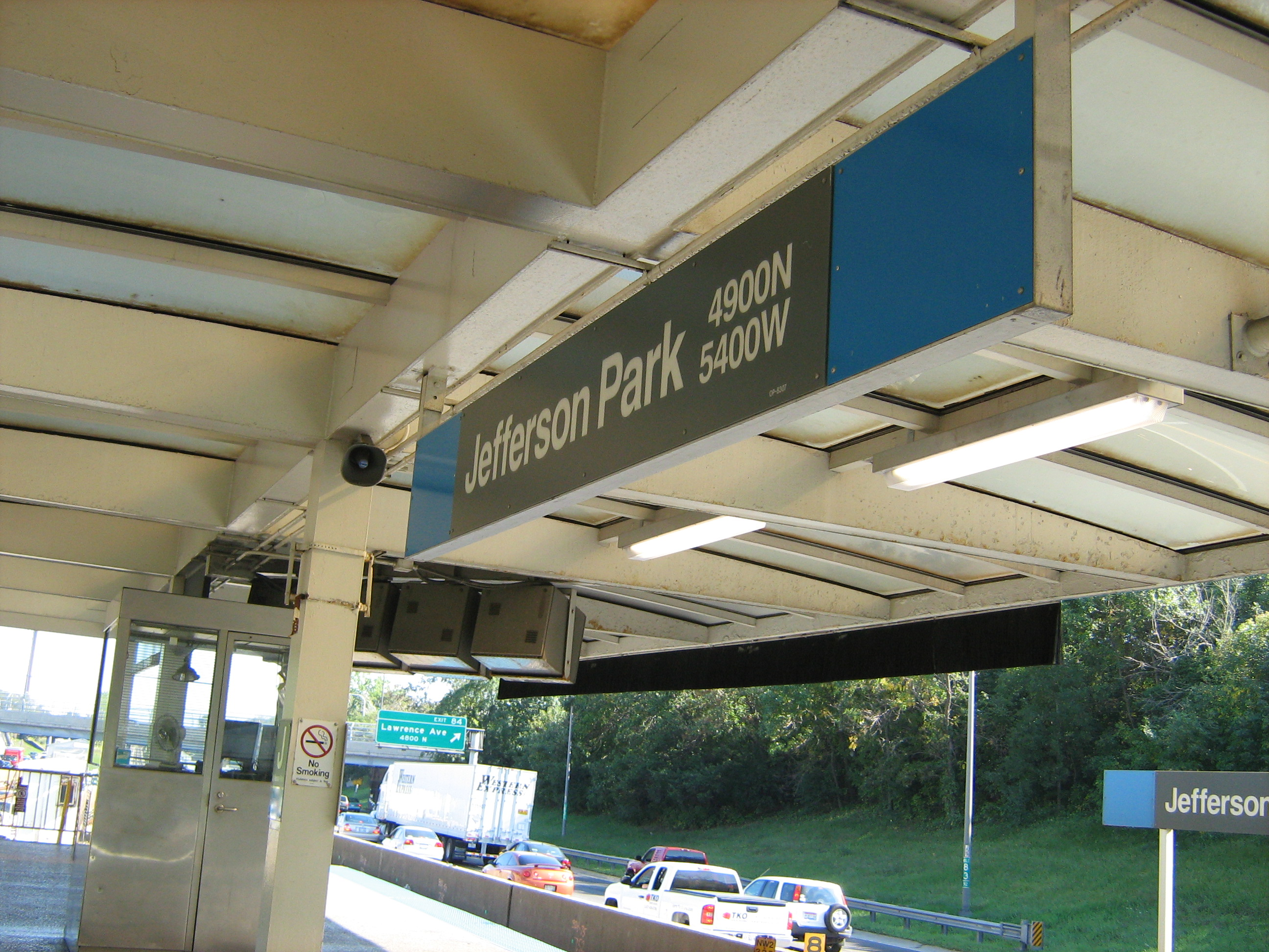 Jefferson Park CTA Station